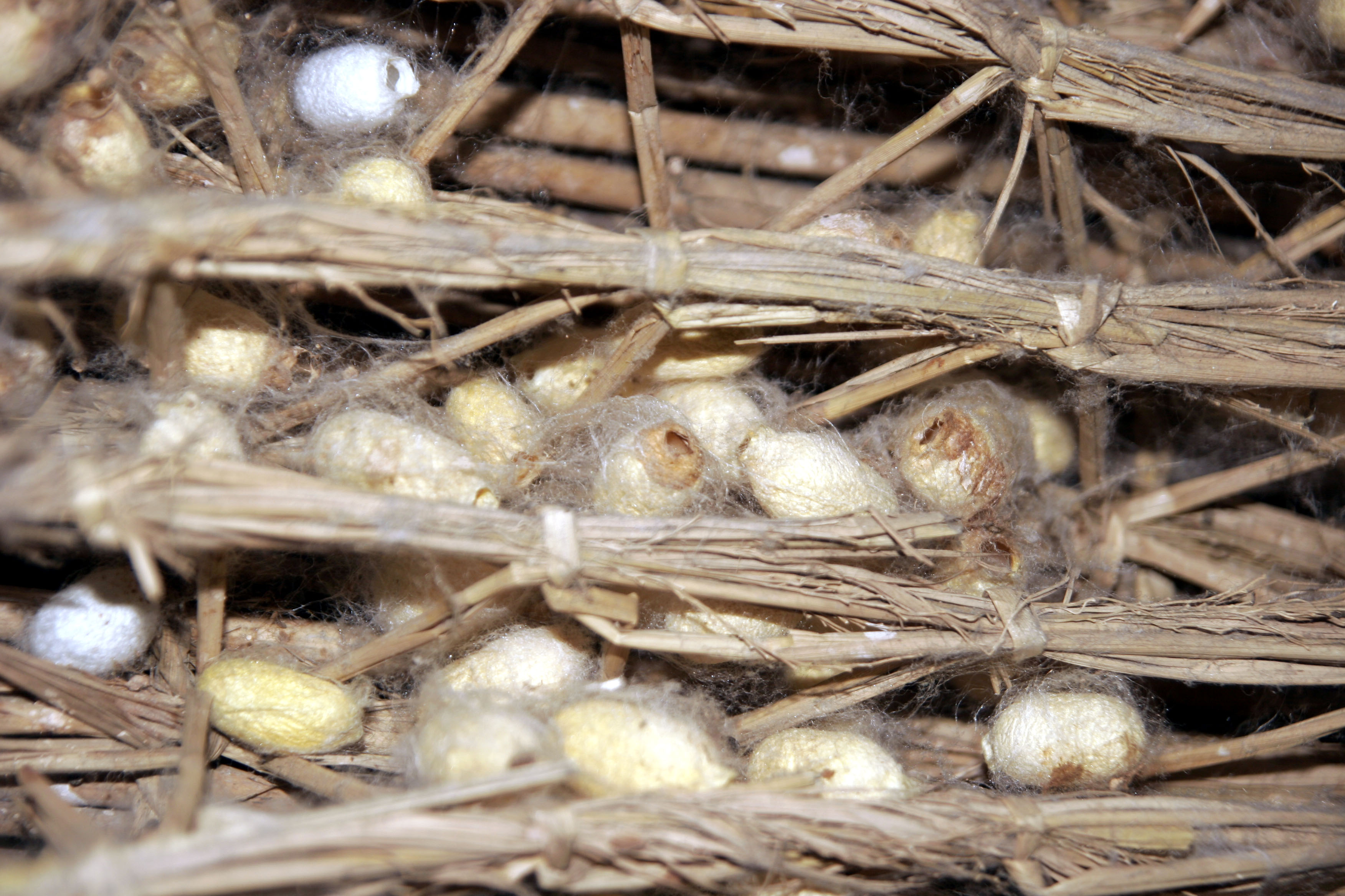 Empty cocoons from silk worms in the Suzhou No.1 Silk Mill in Suzhou (Jiangsu), China